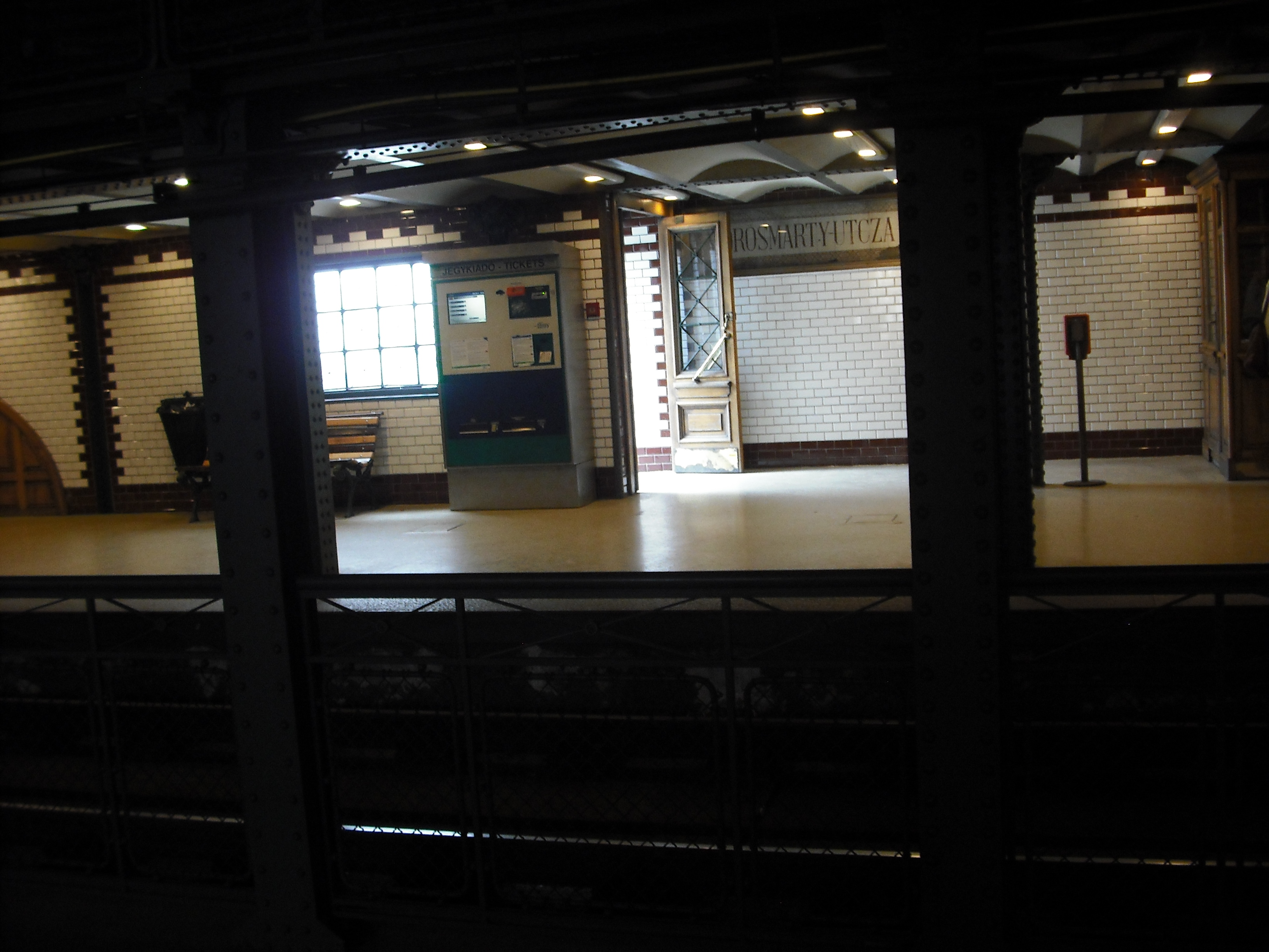 Inside the station Vörösmarty utca, on Budapest Metro system.